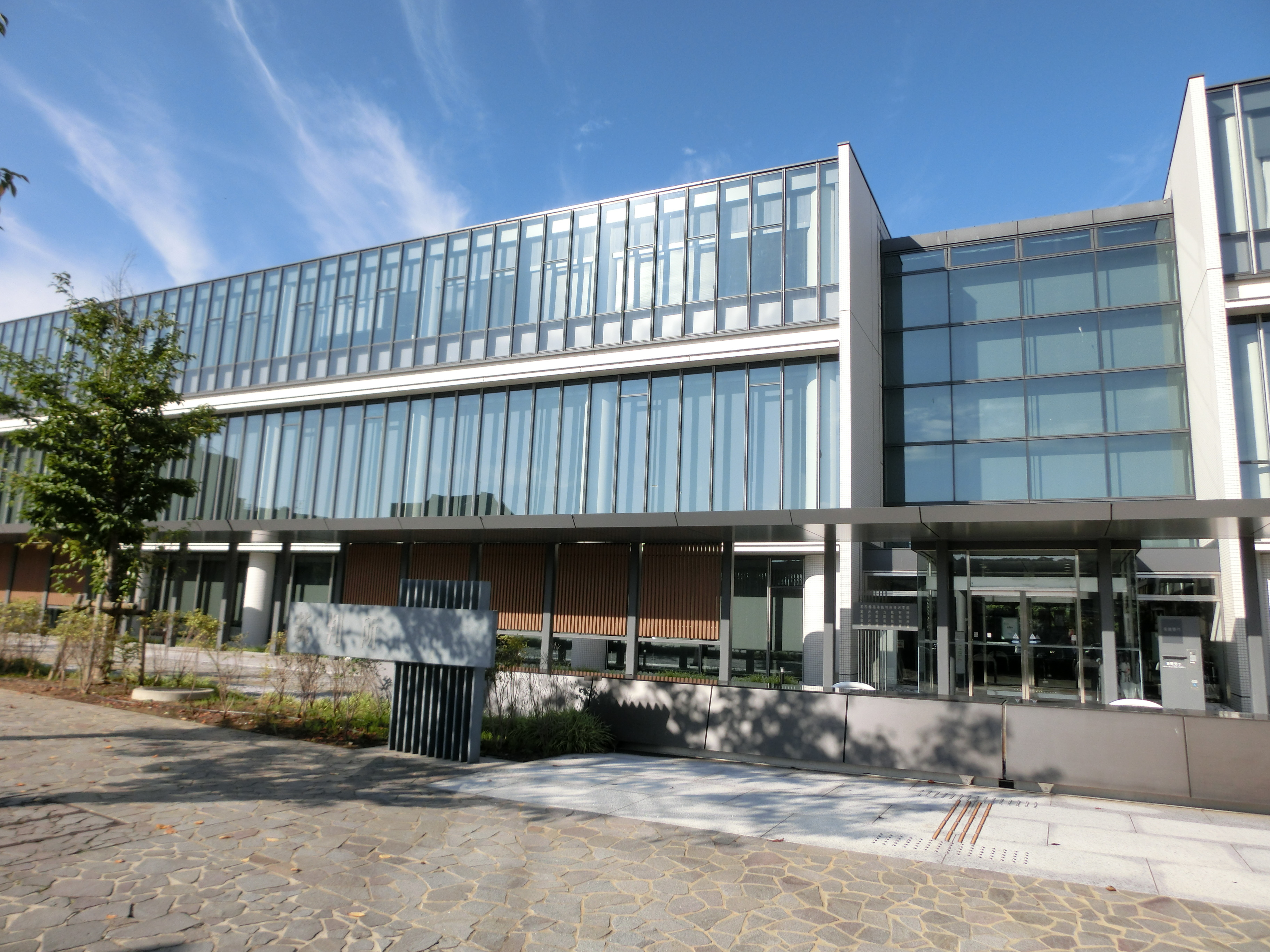 Kanazawa District Court